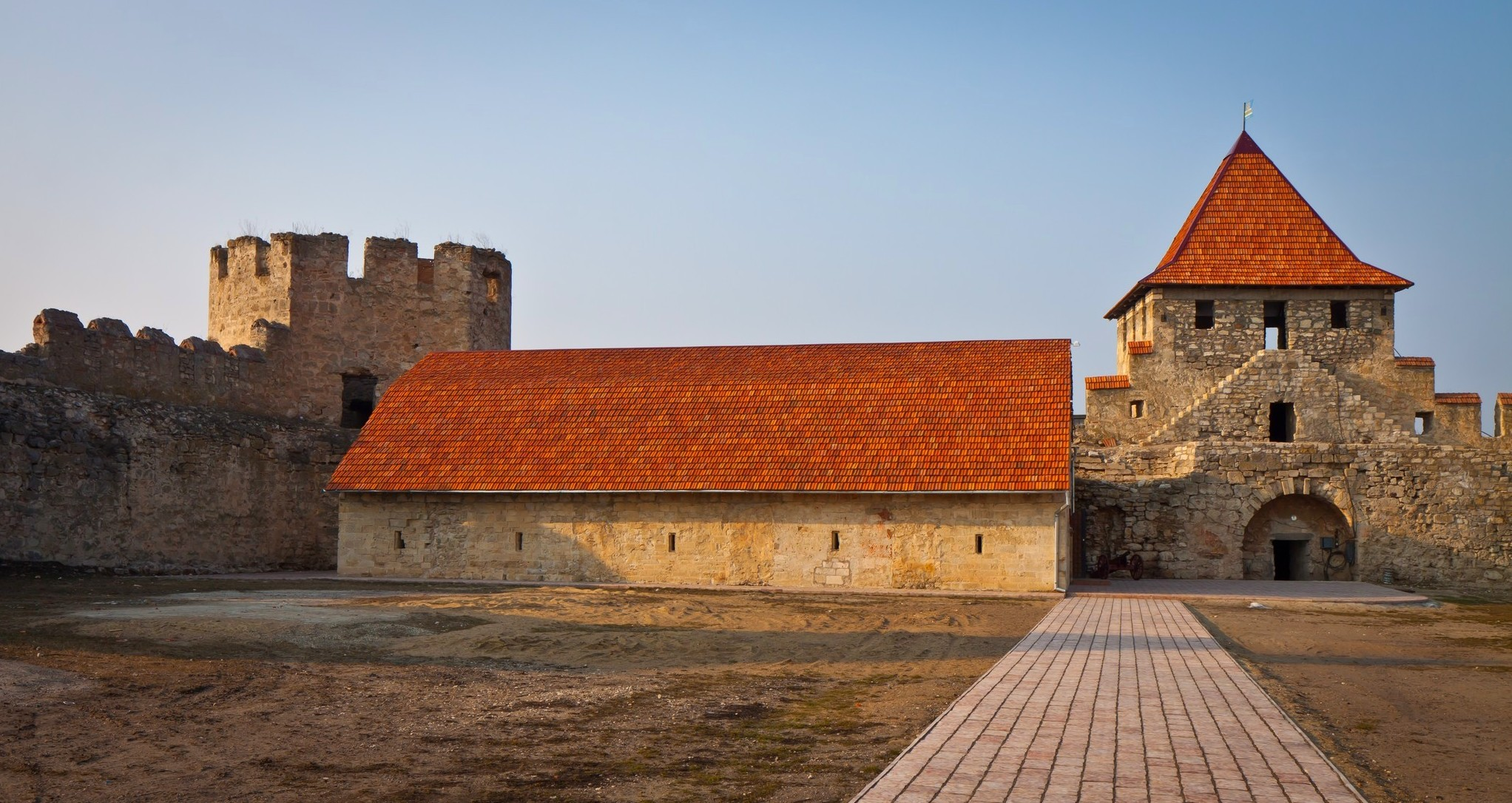 Inside of the Bender Fortress' citadel